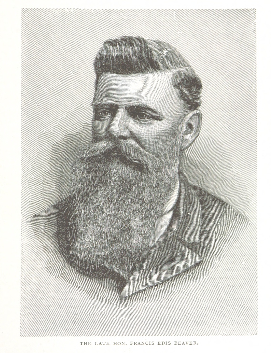 An illustration of Francis Beaver, a politician and auctioneer in colonial Victoria, Australia. From the book "Victoria and its Metropolis, past and present. [Vol. 1 by A. Sutherland; vol. 2 by various authors. Illustrated.]"